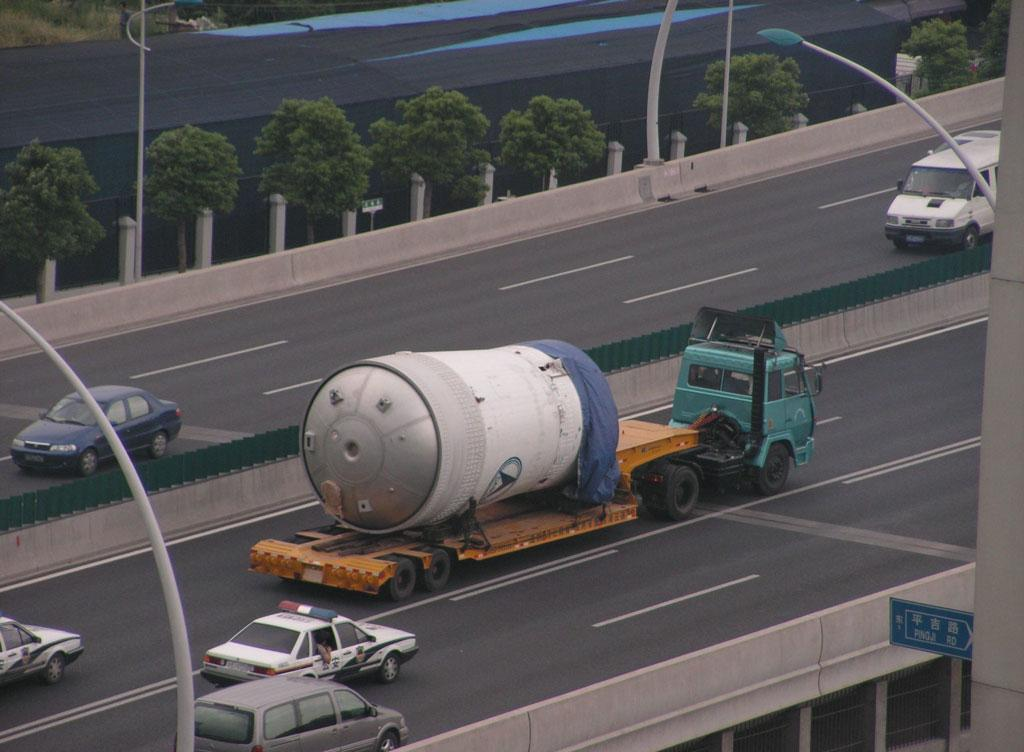 Chinese rocket facility is being transferred on Middle Ring Road at Pingji Road, Minhang, Shanghai. Notice that 2 police cars are following behind.The logo (China National Space Administration) can be seen on its surface. 中文（中国大陆）: 正在运输火箭的汽车，行驶于上海中环路外圈顾戴路出入口南侧高架引桥，近平吉路。